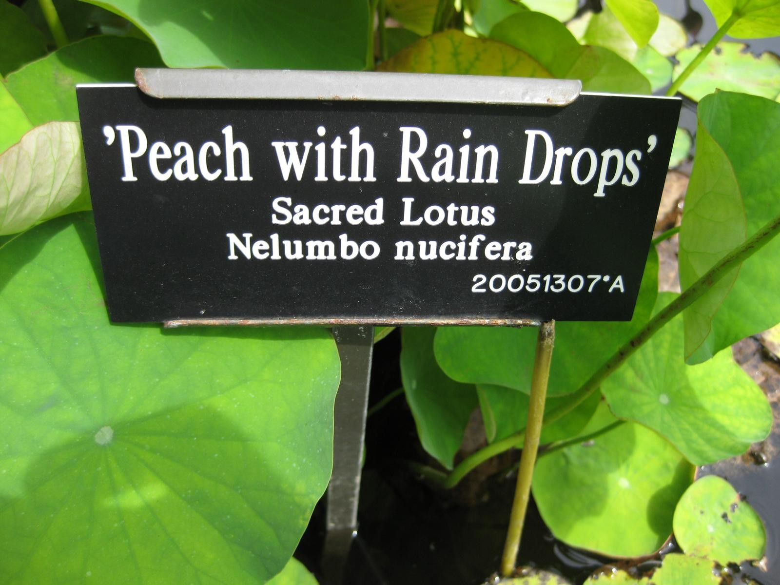 Photographed at Brooklyn Botanic Garden (New York) in September